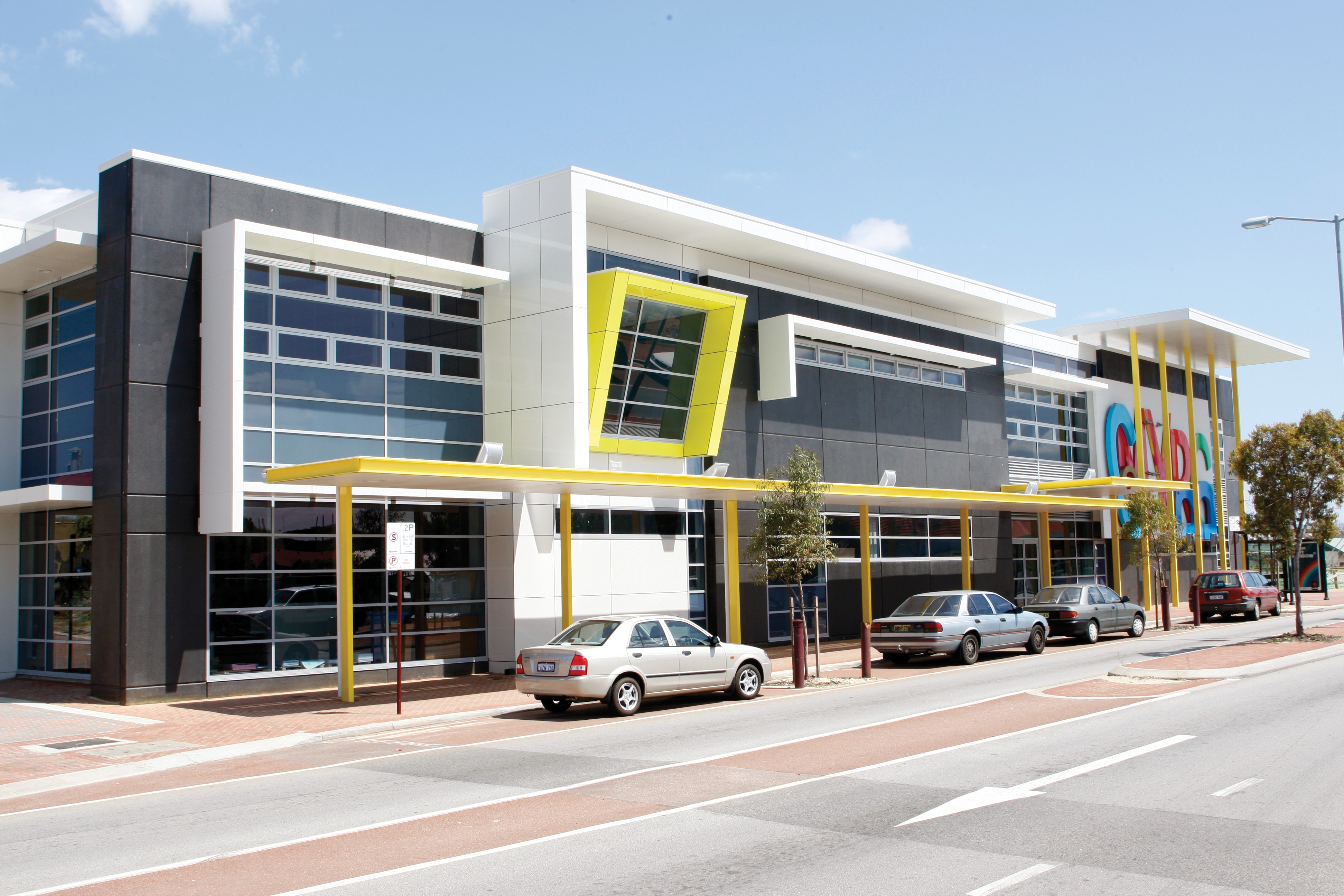 133 Newcastle St, Northbridge. Graphic Design and Jewellery Design centre.